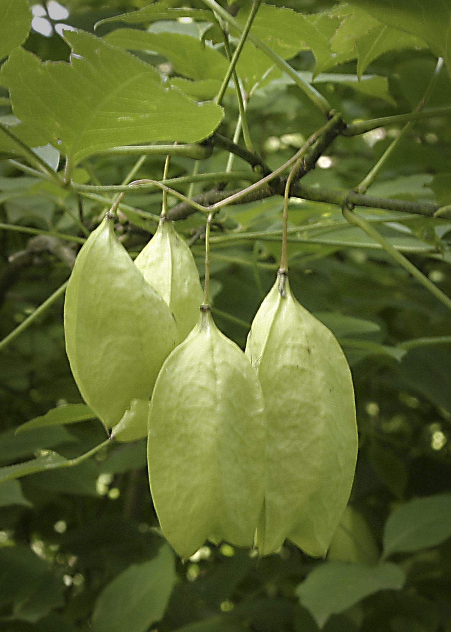 Staphylea trifolia L. Seed pods of Bladdernut shrub growing in dry oak woods in Central Illinois, USA